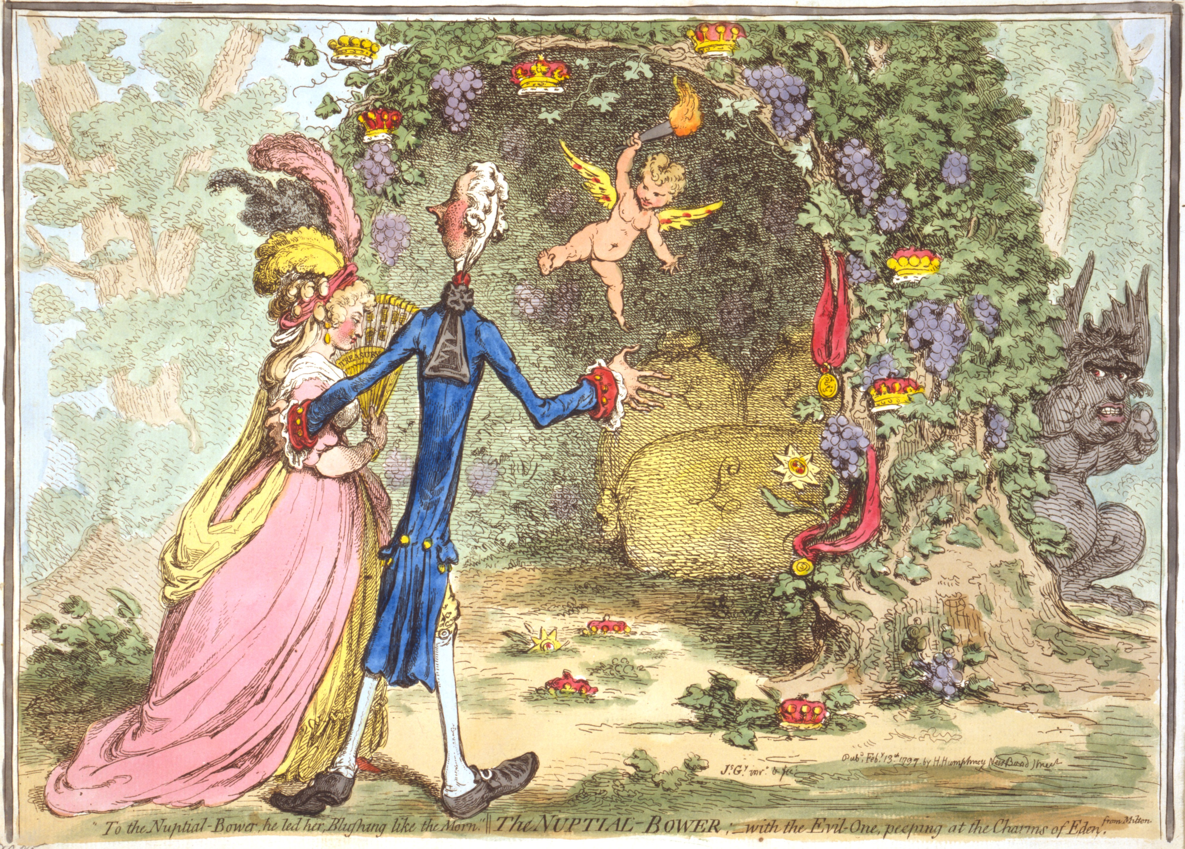 The Nuptial-Bower;—with the Evil-One, peeping at the Charms of Eden. from Milton Js. Gy. inv. & fect. SUMMARY: Cartoon shows William Pitt escorting Eleanor Eden to a vine-shaded bower within which are three large sacks with the British pound symbol on them, possibly representing Pitt's debt. Bunches of grapes, crowns, and medallions, suspended from ribbons, hang from the bower. A devil-like creature, "the Evil-One", representing Charles James Fox, peers around the bower from the right. MEDIUM: 1 print : etching, hand-colored. CREATED/PUBLISHED: [London] : Pubd. by H. Humphrey, 1797 Feby. 13th. Also see Wright & Evans, Historical and Descriptive Account of the Caricatures of James Gillray (1851, OCLC 59510372), pp. 95–8.